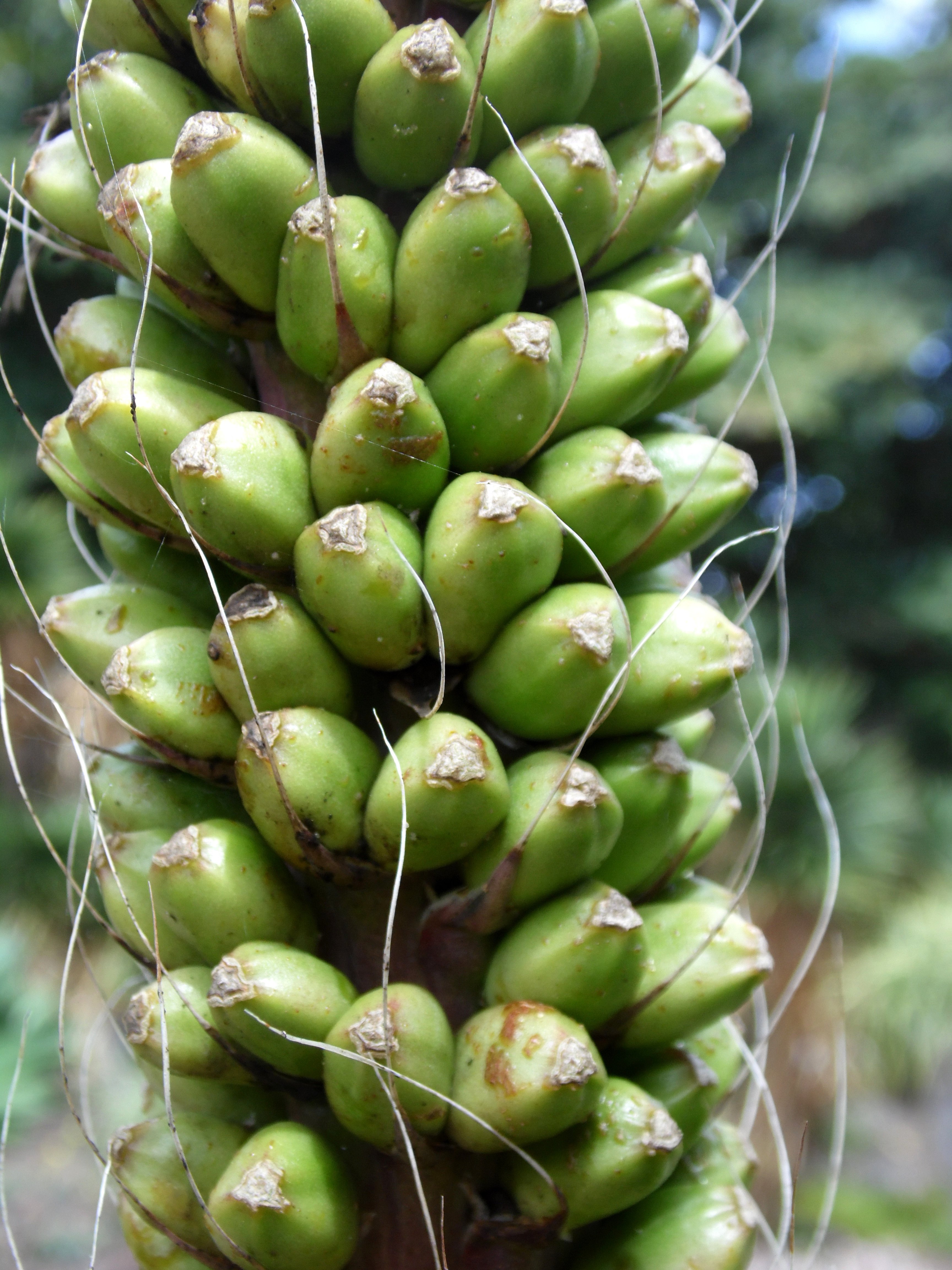 Agave filifera in Jardín Botánico Canario Viera y Clavijo